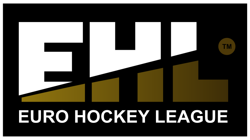 The Euro Hockey League logo Français cadien: Le logo de la Ligue Européenne de Hockey